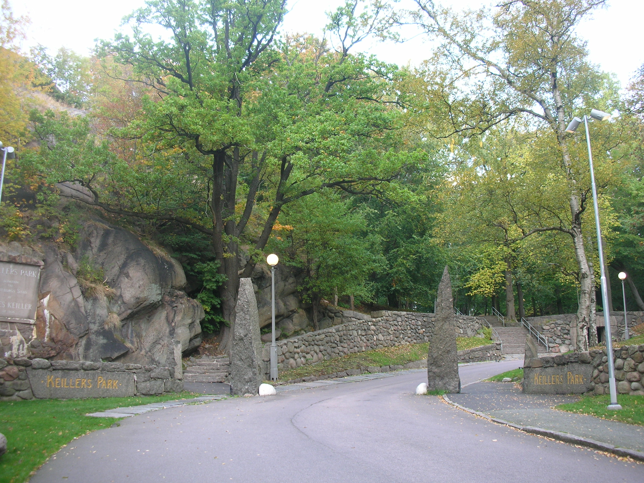 Keillers park, seen from the south end of rambergsvägen.